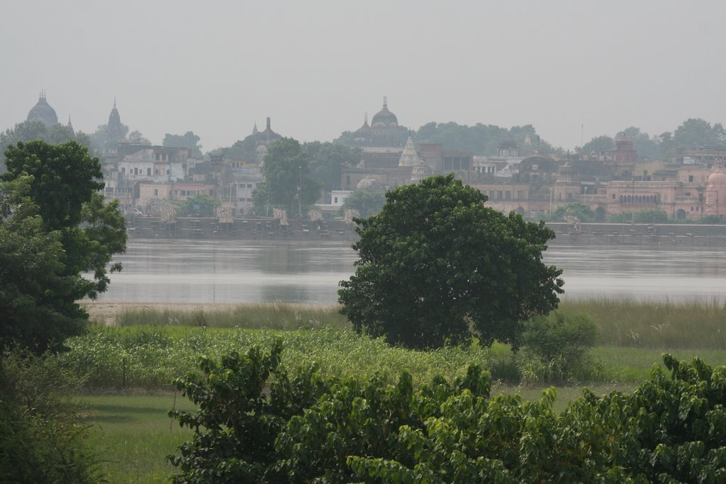 A view of the ancient city of Ayodhya in India, in the Faizabad district of Uttar Pradesh.